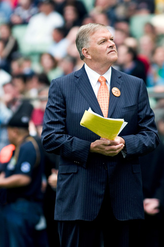 Labor leader Kim Beazley (1996-2001, 2005-2006) at an anti-WorkChoices rally at the Melbourne Cricket Ground in November 2006